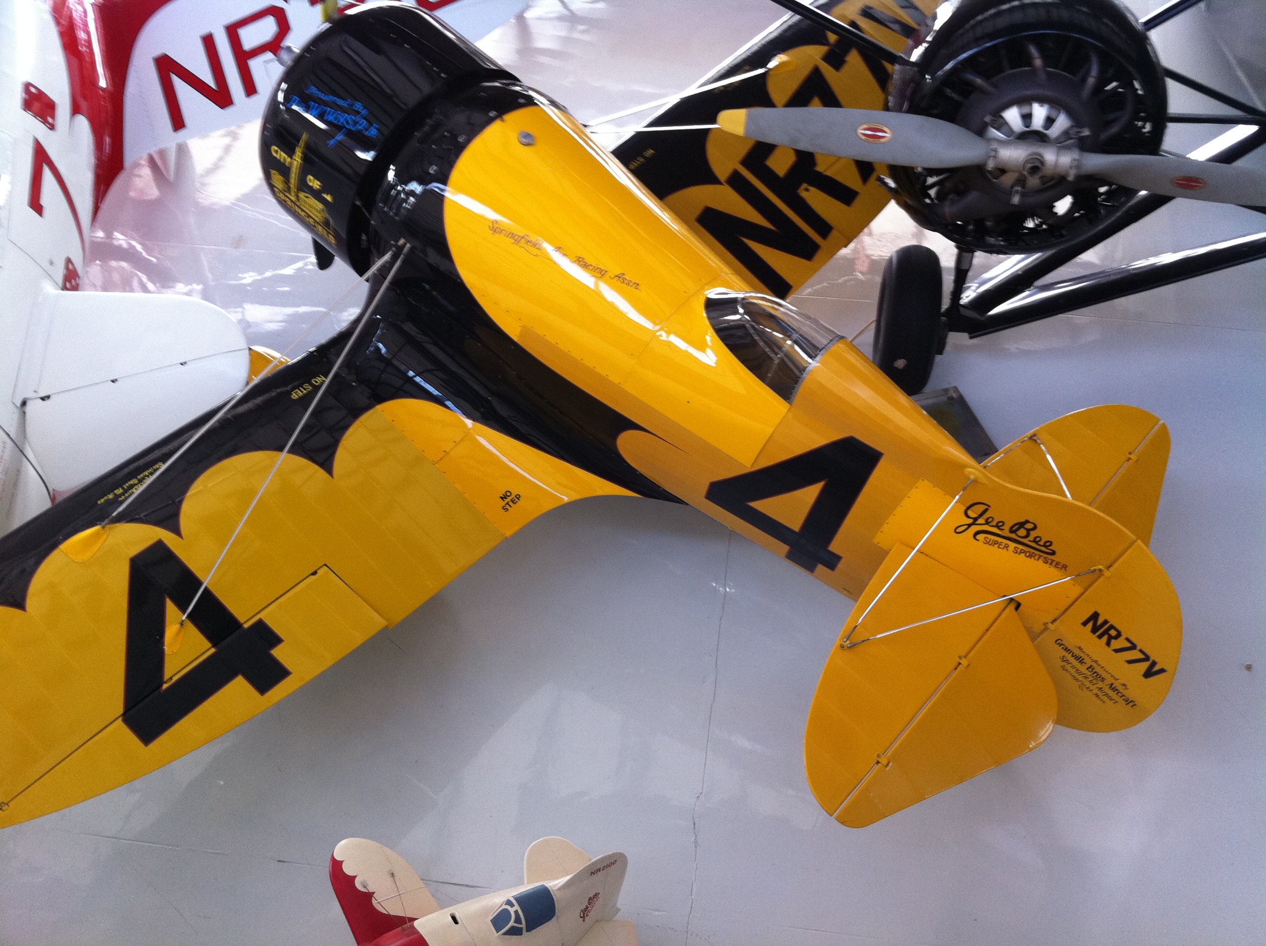 Gee Bee Z full scale reproduction on display at Fantasy of Flight